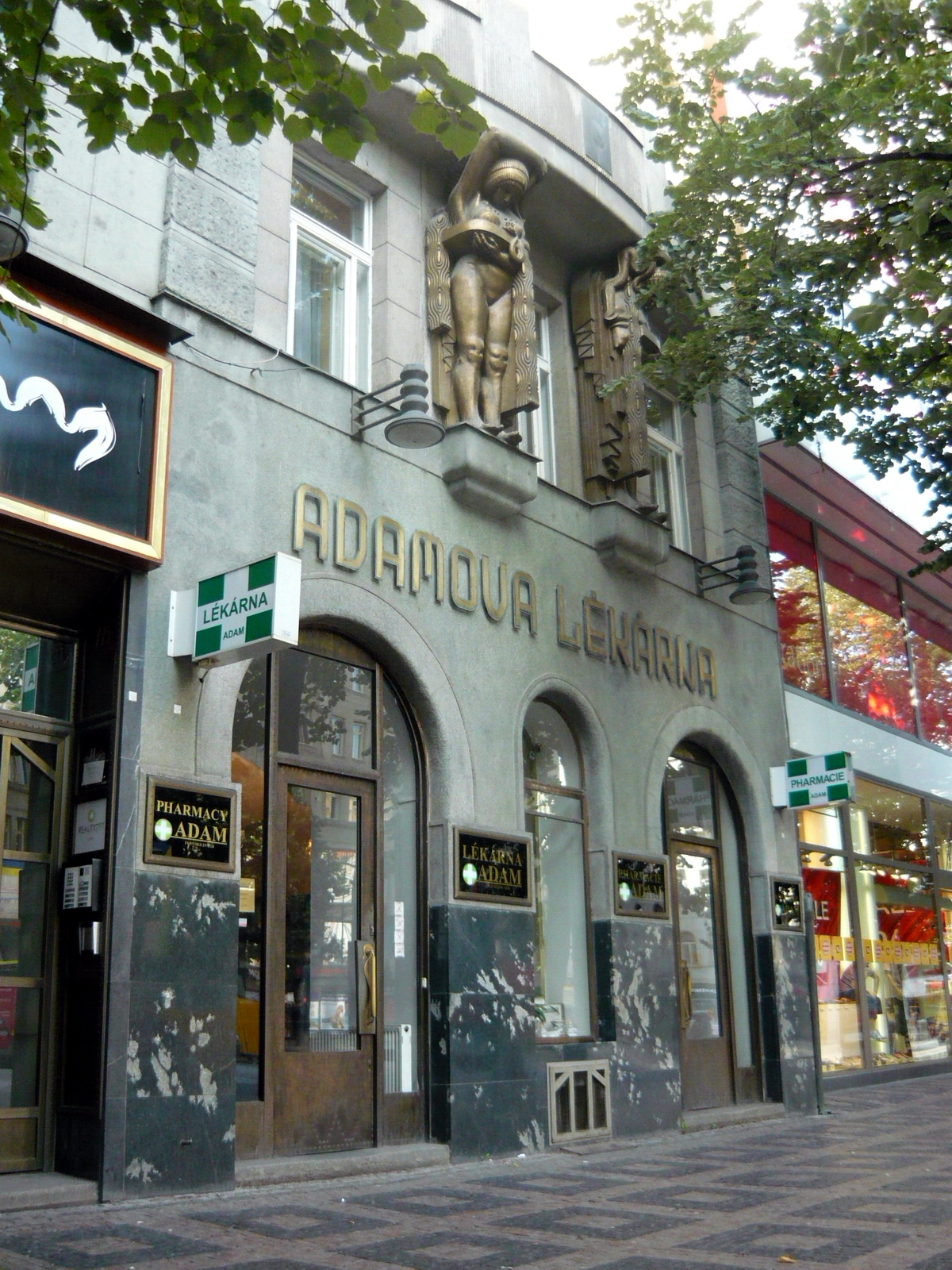 Emil Králíček (1877-1930) - Adam pharmacy, 1911-1913, Prague, Vaclavske sq. 8